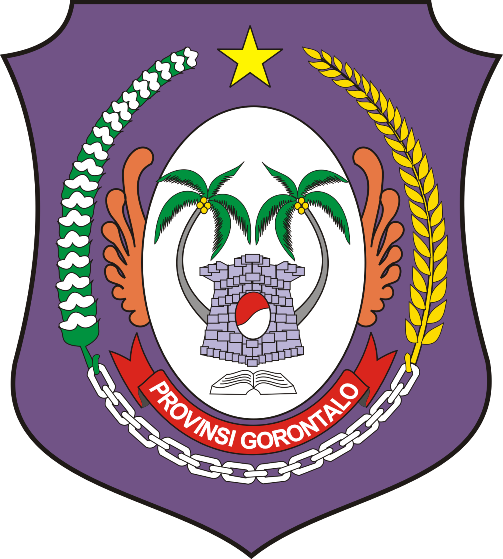 The coat of arms of the Indonesian province Gorontalo